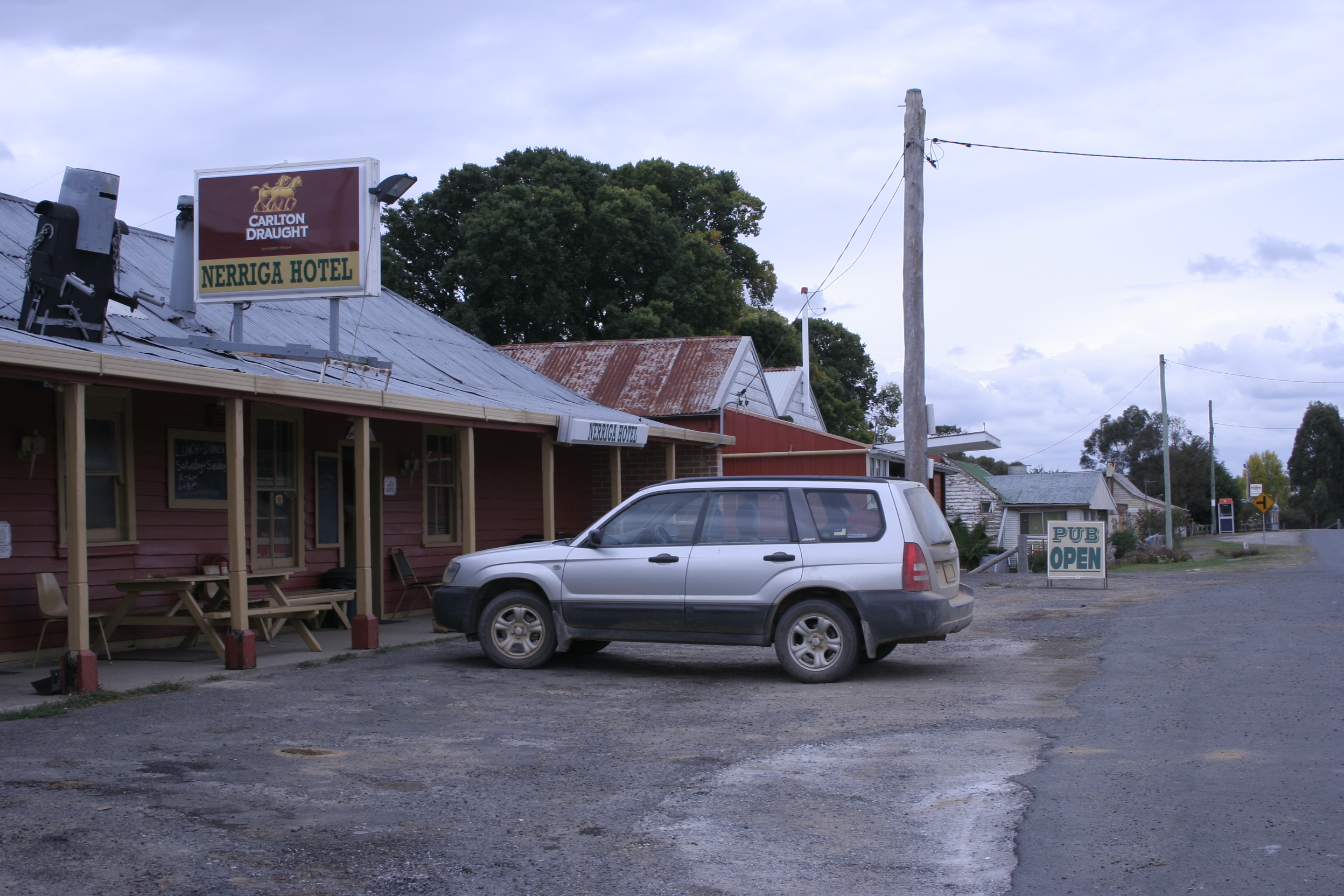 Nerriga Hotel, Nerriga, New South Wales